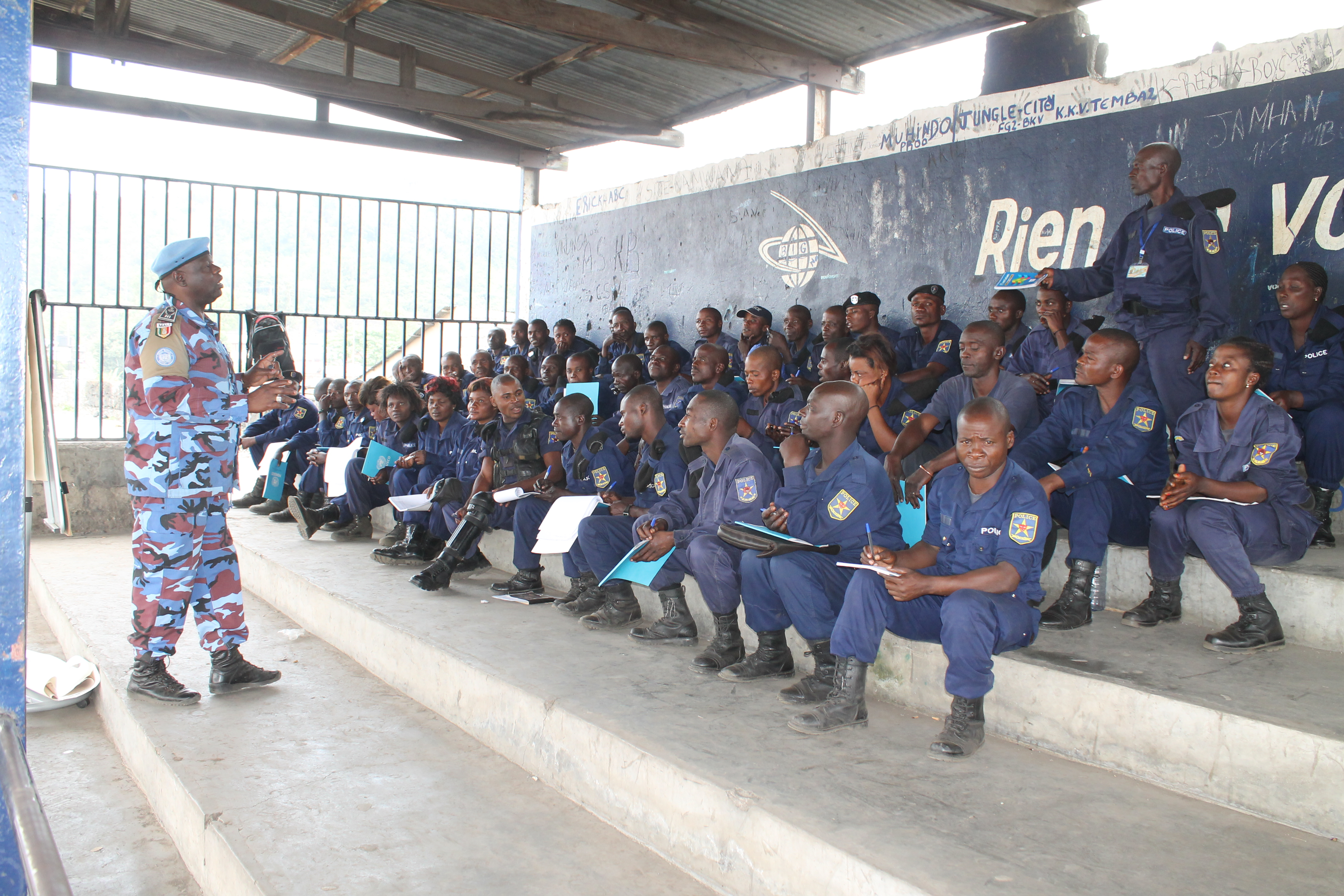 Goma, Nord Kivu, RD Congo : 450 éléments de la Police Nationale Congolaise (PNC) ont bénéficié d'une formation de recyclage portant sur le processus électoral. Cette formation est dispensée par les instructeurs de la Police des Nations Unies (UNPOL) et leurs homologues de la PNC. Photo MONUSCO/Alain Kyalemaninwa Wandimoyi = Goma, North Kivu, DR Congo: 450 Congolese National Police personnel have received refresher training regarding the electoral process. The training was delivered by United Nations Police (UNPOL) instructors and their PNC counterparts. Photo MONUSCO/ Alain Kyalemaninwa Wandimoyi Wandimoyi